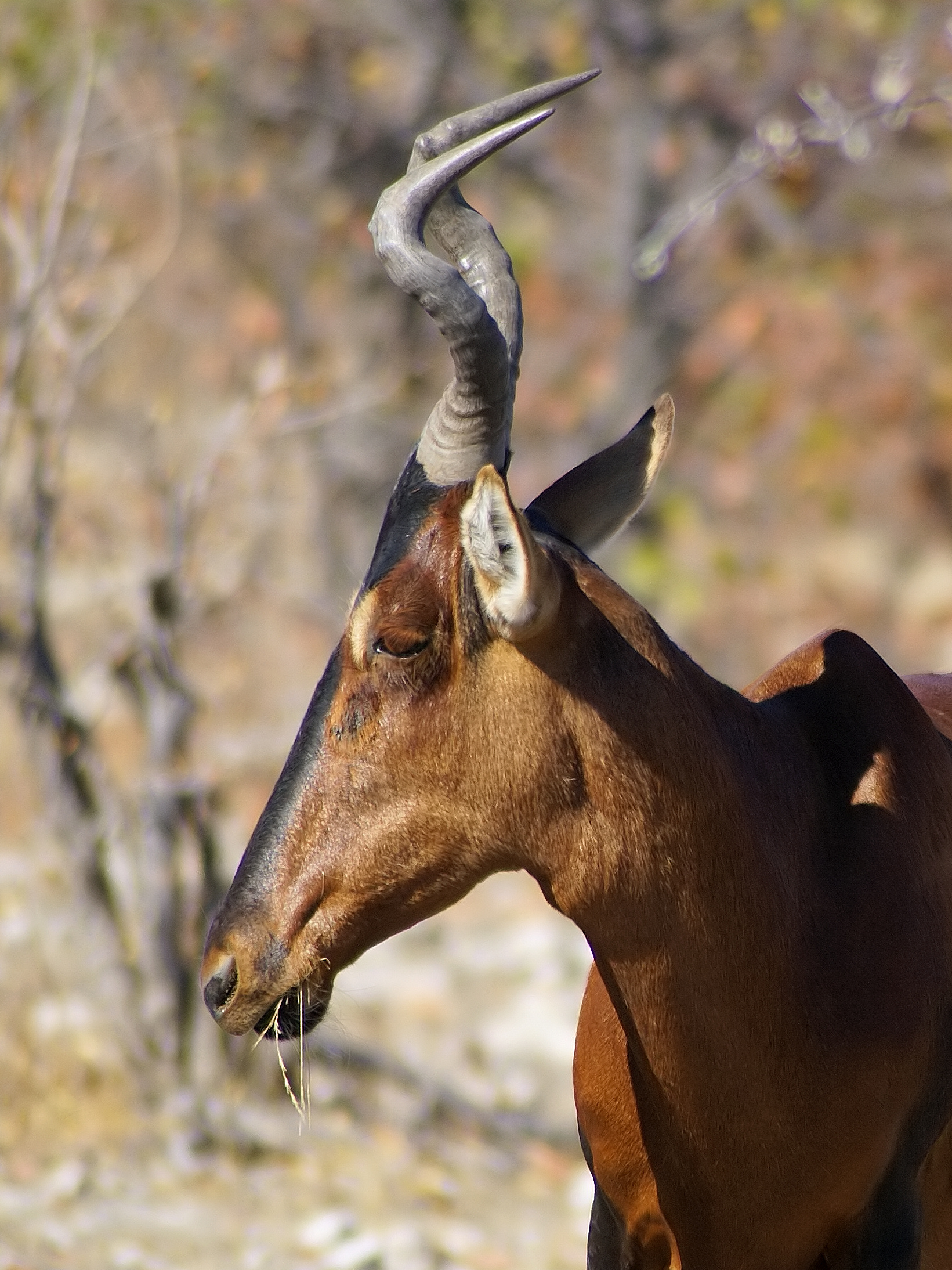 Southern African Red Hartebeest between Olifantsbad and Aus, in Etosha, Namibia.